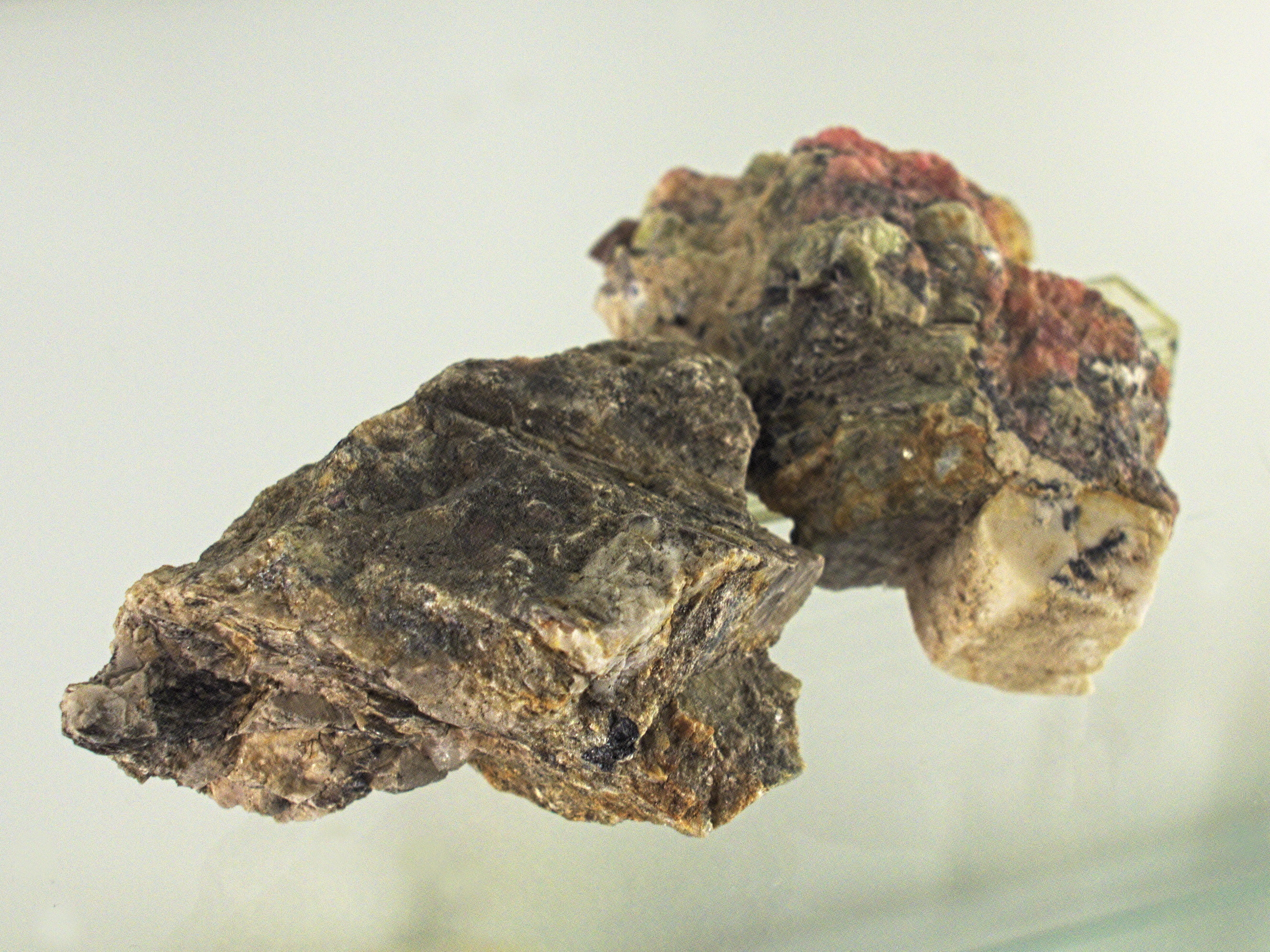 Samples of rare vayrynenite mineral.